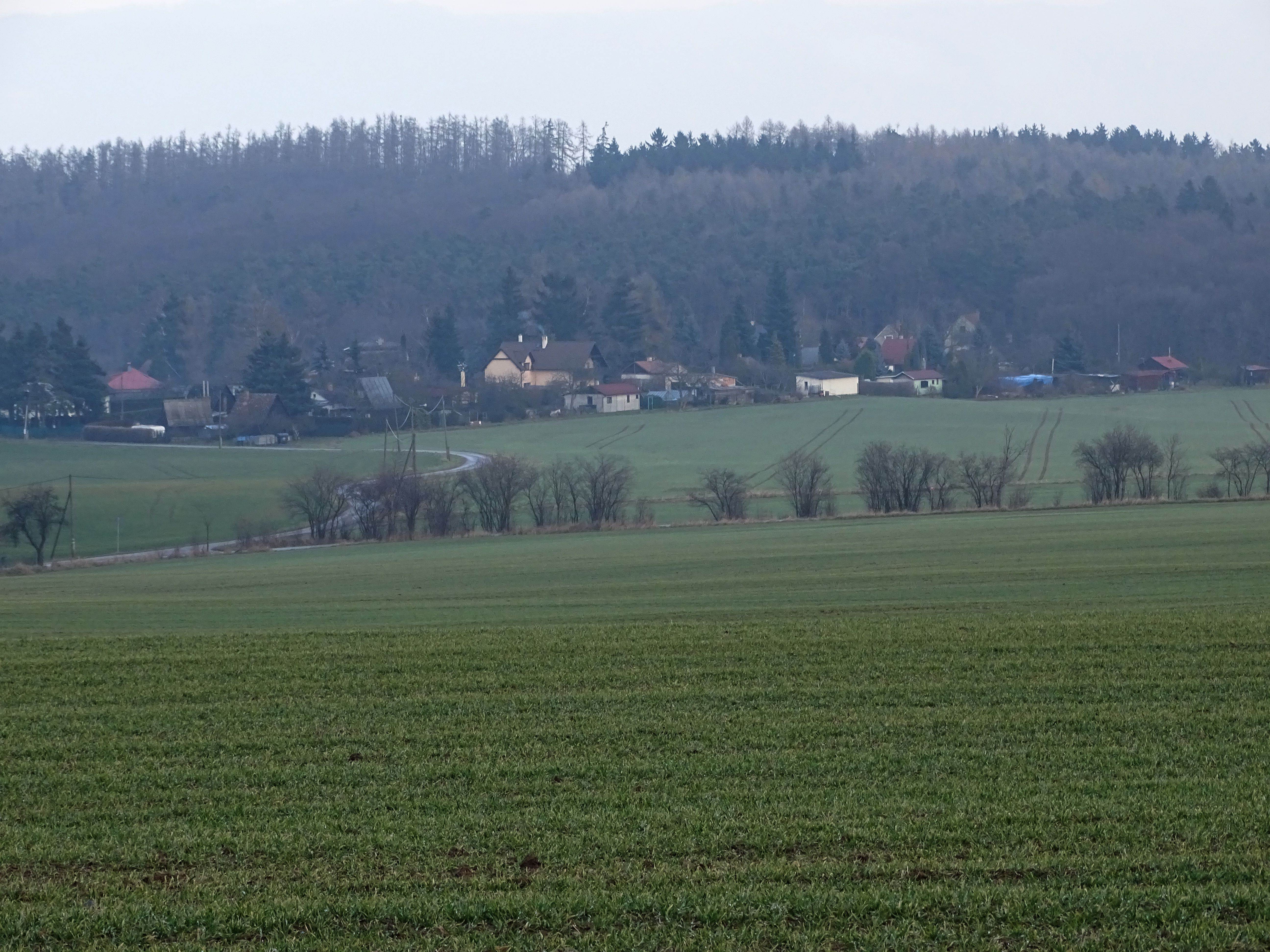 Prague-West District, Central Bohemian Region, Czech Republic. Hora hill.